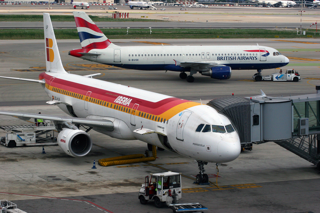 Airbus A321-211 Iberia EC-ILP and Airbus A320-211 British Airways G-Busk